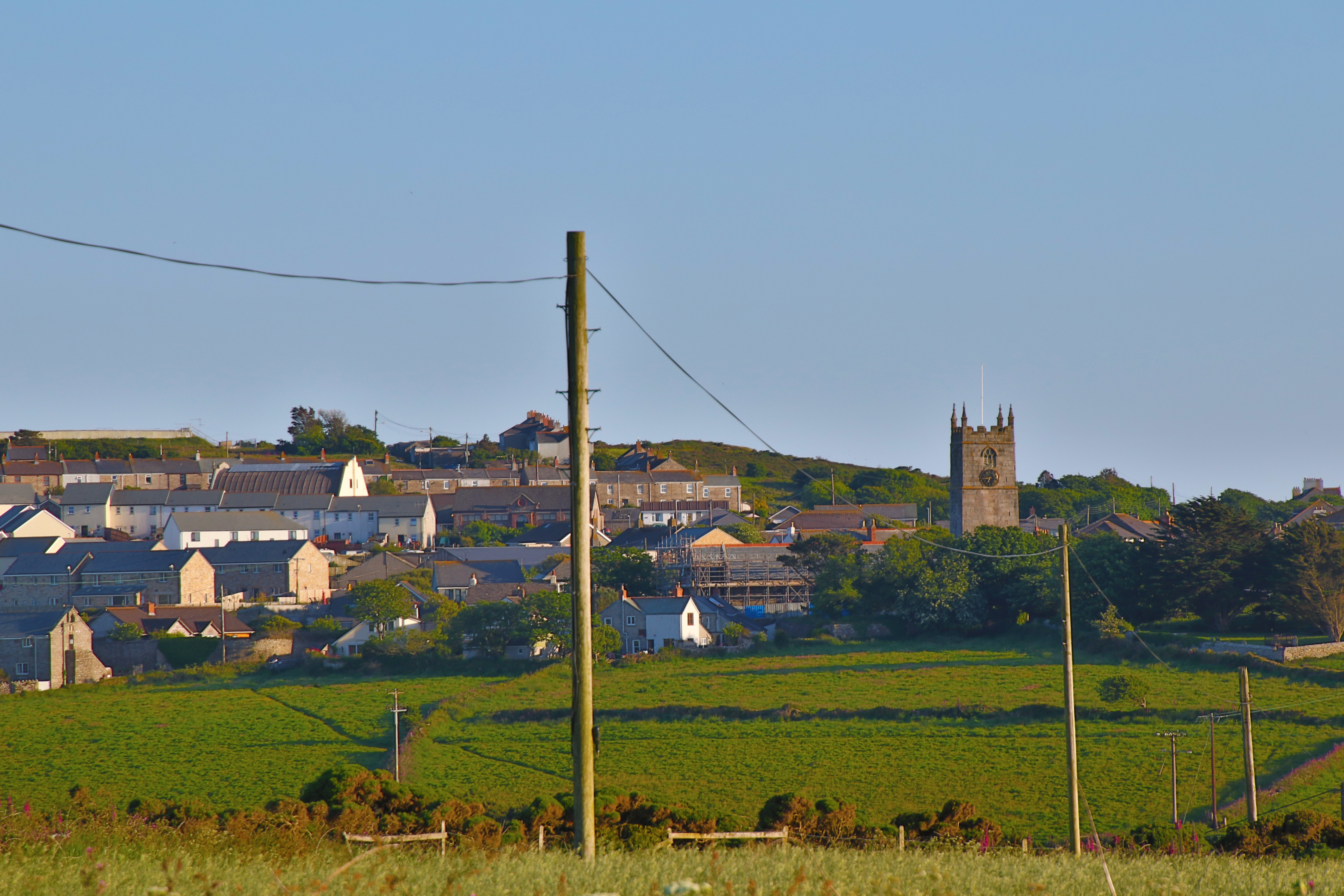 St Just Cornwall This photo was taken by Tom Corser and is © Tom Corser 2020. This photo may be reproduced under the terms of the Creative Commons Attribution-ShareAlike 3.0 Unported Licence [1] (unless otherwise stated). Please credit this photo Tom Corser If using this photo, make sure you properly credit and specify the licence that this photo is licensed under. (E.g. "Photo by Tom Corser Licensed under Creative Commons Attribution-ShareAlike 3.0 Unported Licence: If you would like to use this photo under a different license, please contact me via or . Attribution: Tom Corser